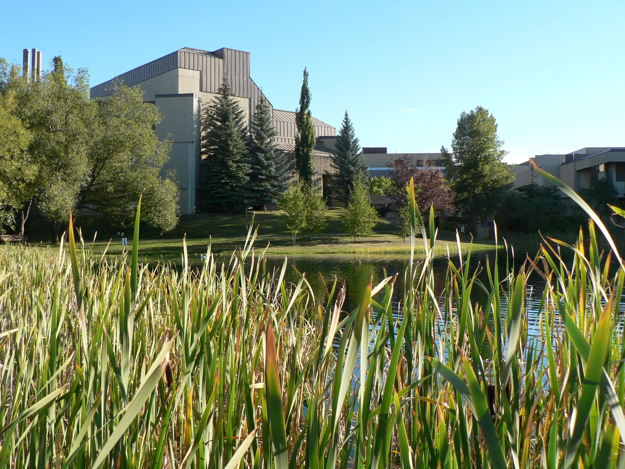 This is the old part of the Mount Royal University Campus, taken from across the pond Other information This is my own work, I took this picture and am offering it to Wikipedia for use